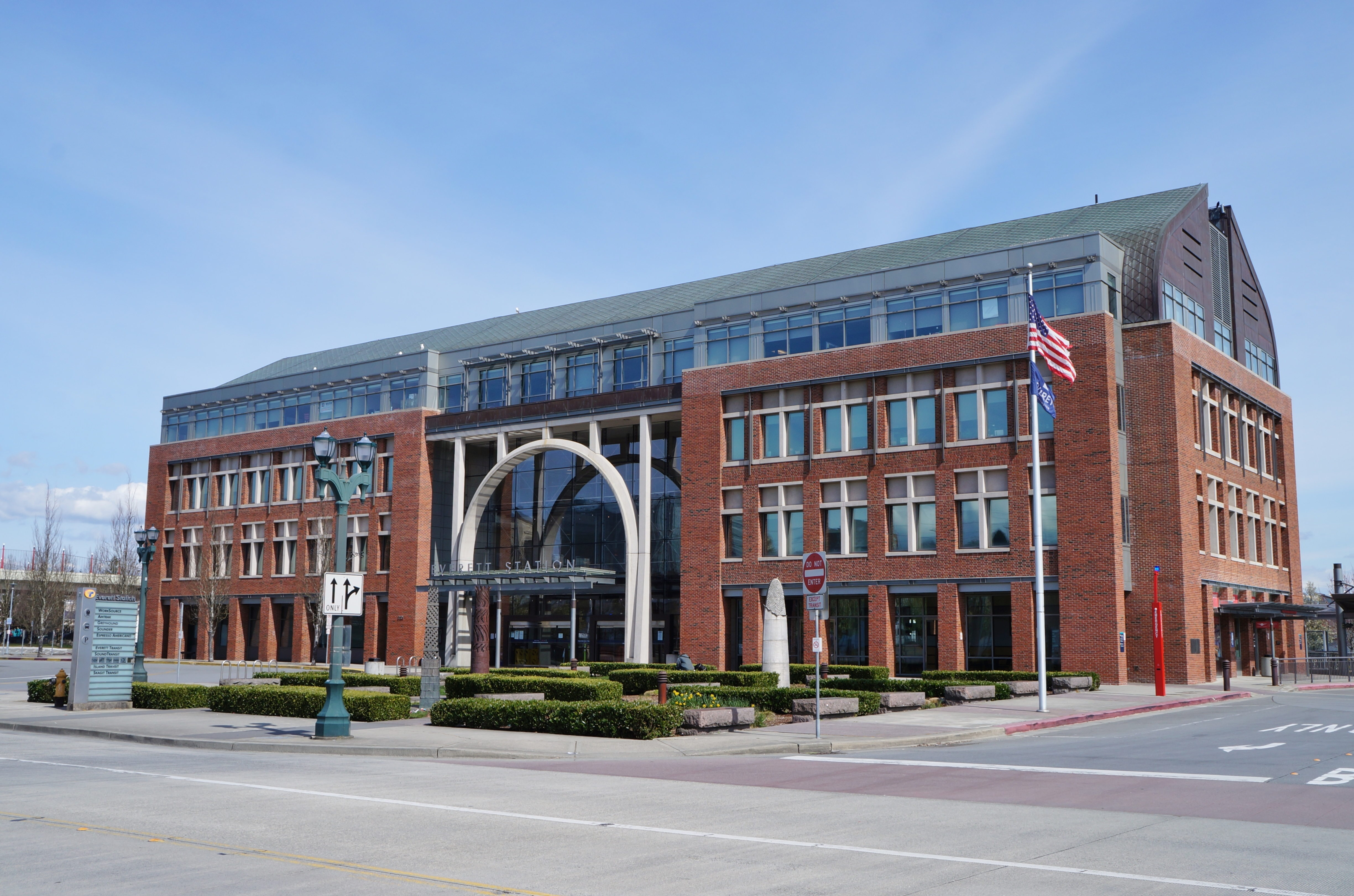 The main building at Everett Station, a train and bus facility in Everett, Washington.